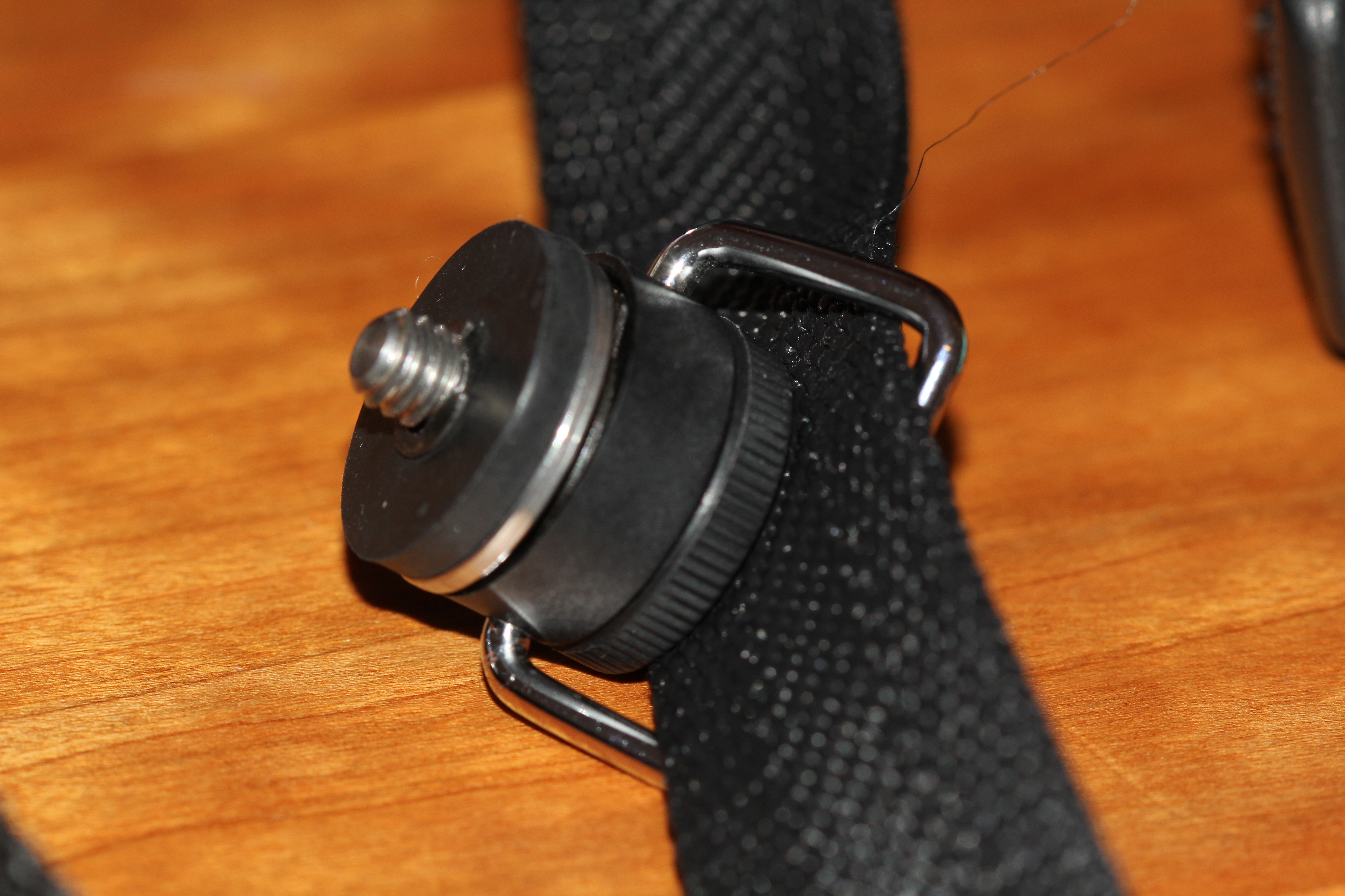 A screw secured with an E-Ring.